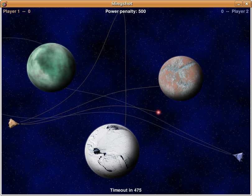 Slingshot screenshot